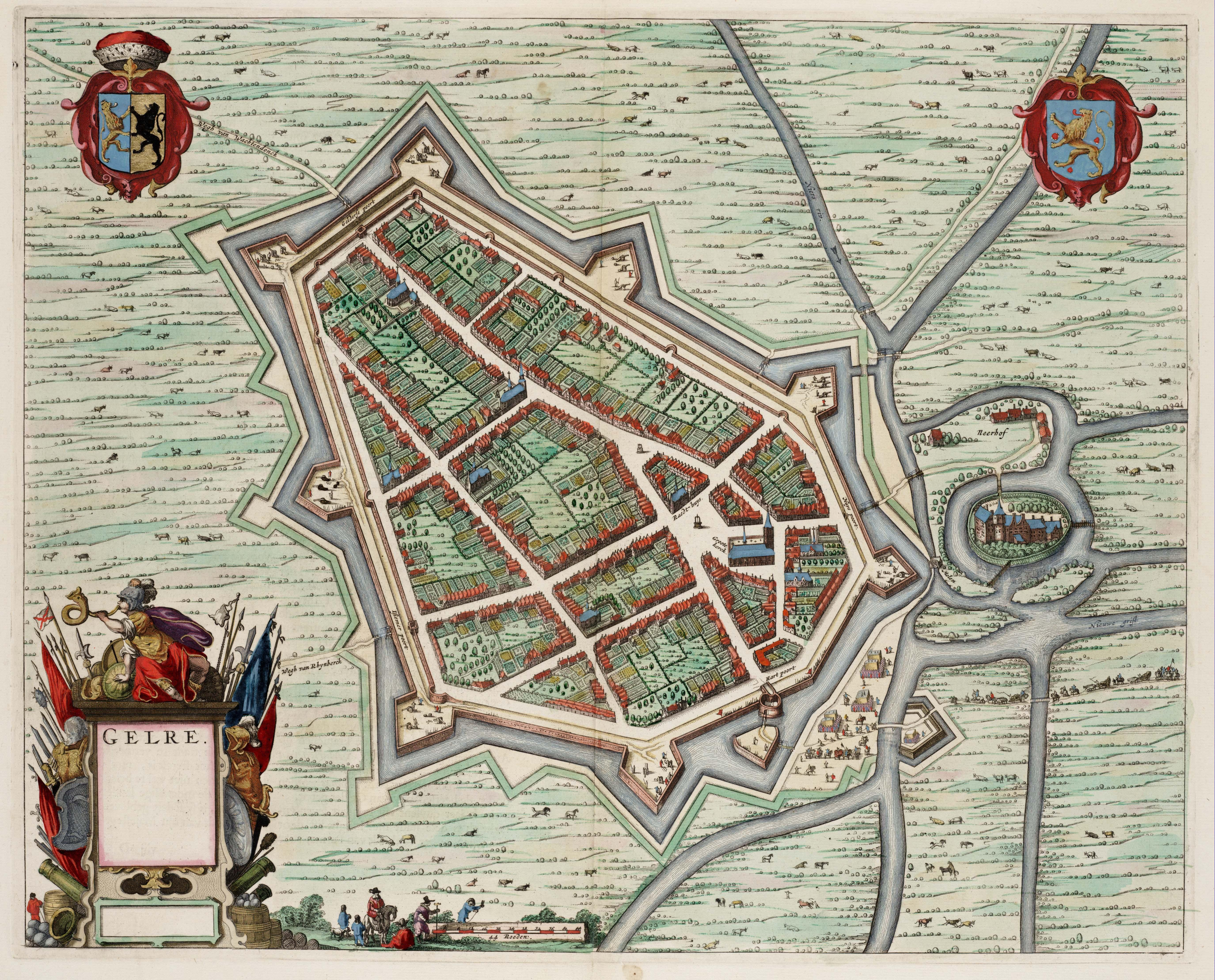 Map of Geldern, (Gelre, Gelder), Atlas van Loon, 1649, the coloring is of a later date